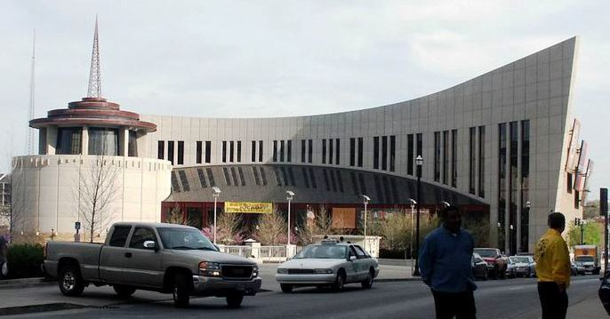 Country Music Hall of Fame, Nashville